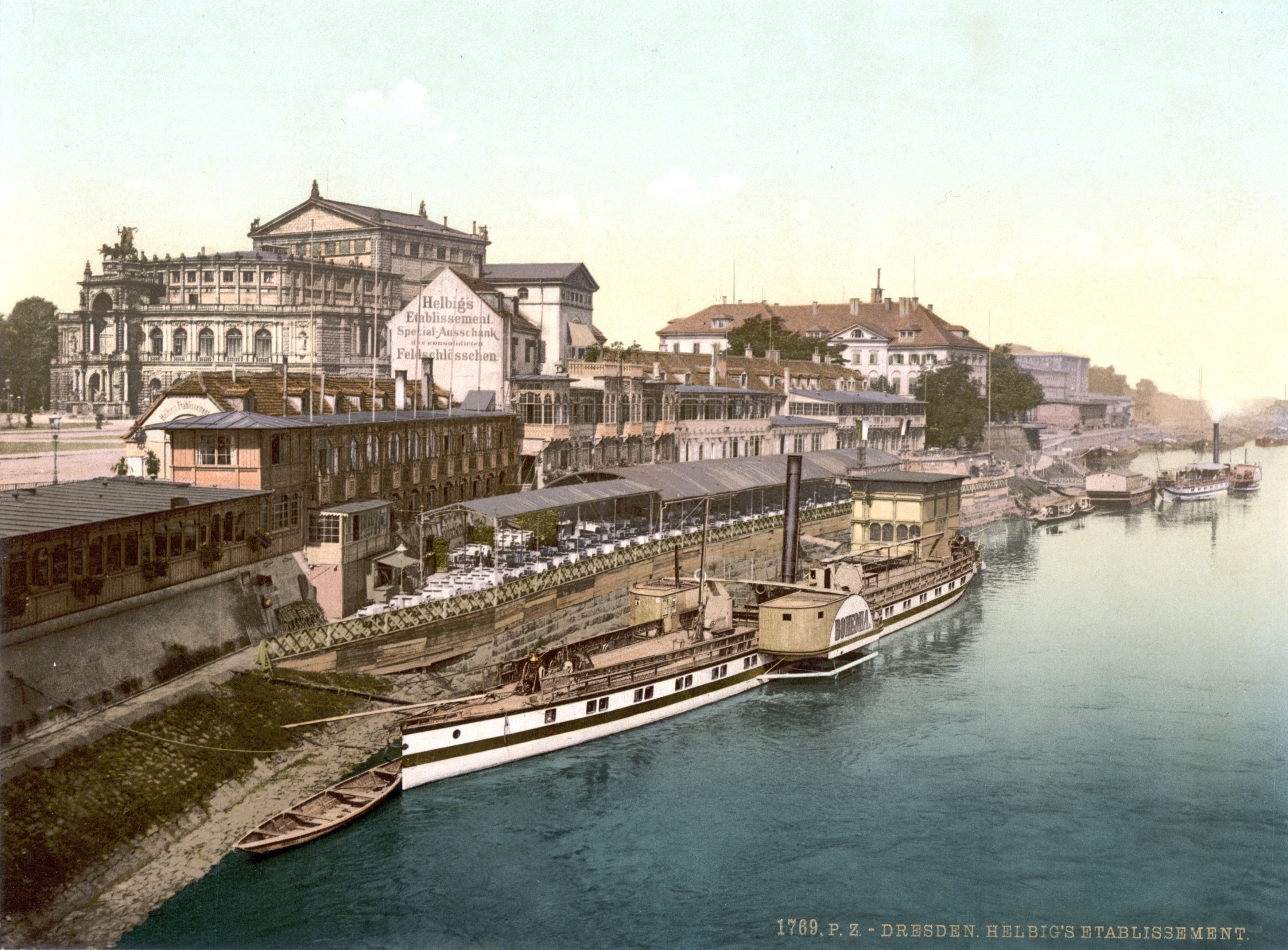 Dresden (Saxony, Germany) - Elbe waterside with the Theaterplatz (theatre place) and Helbigs Etablissement